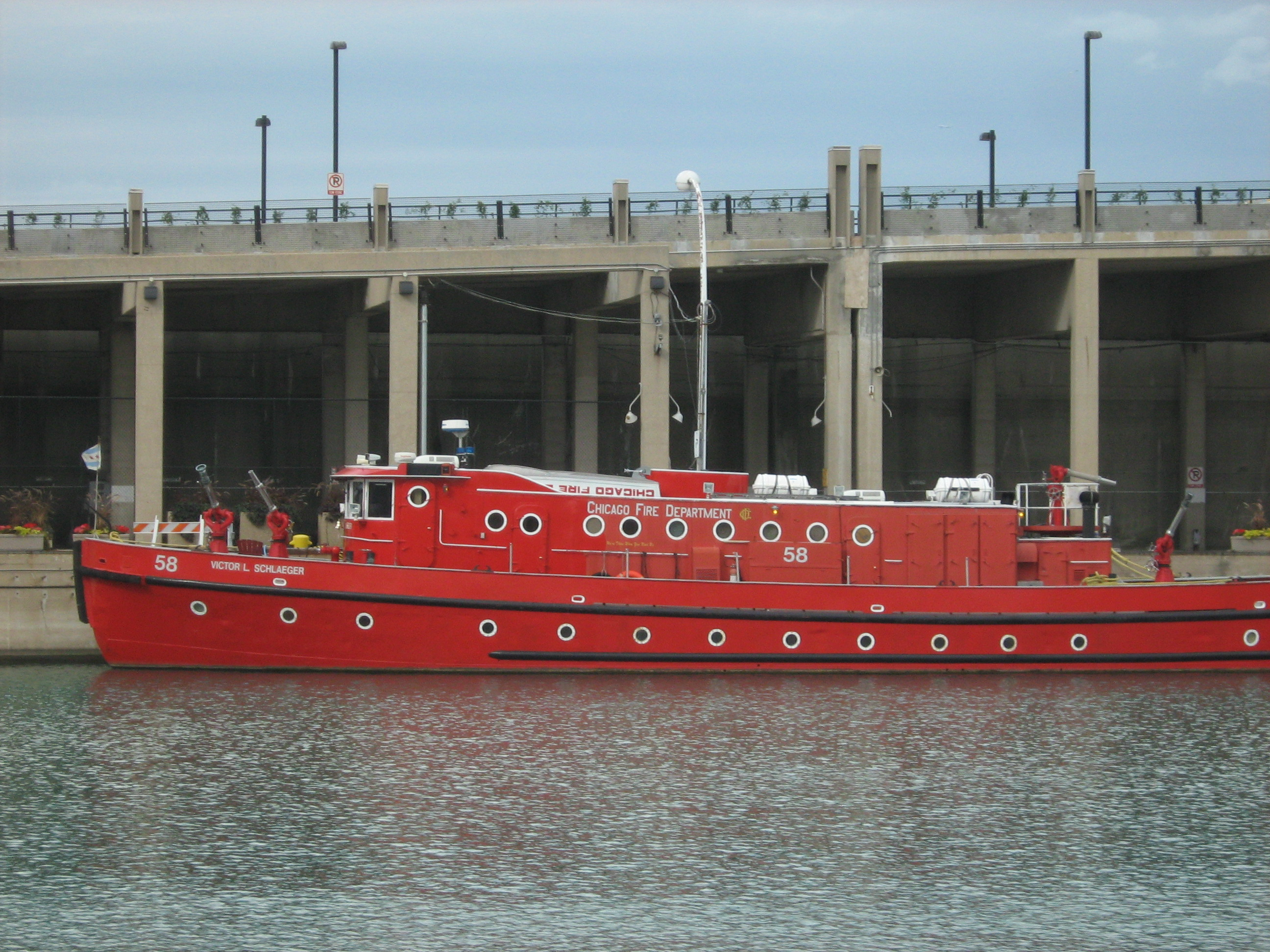 Chicago Fire Department Boat near Navy Pier